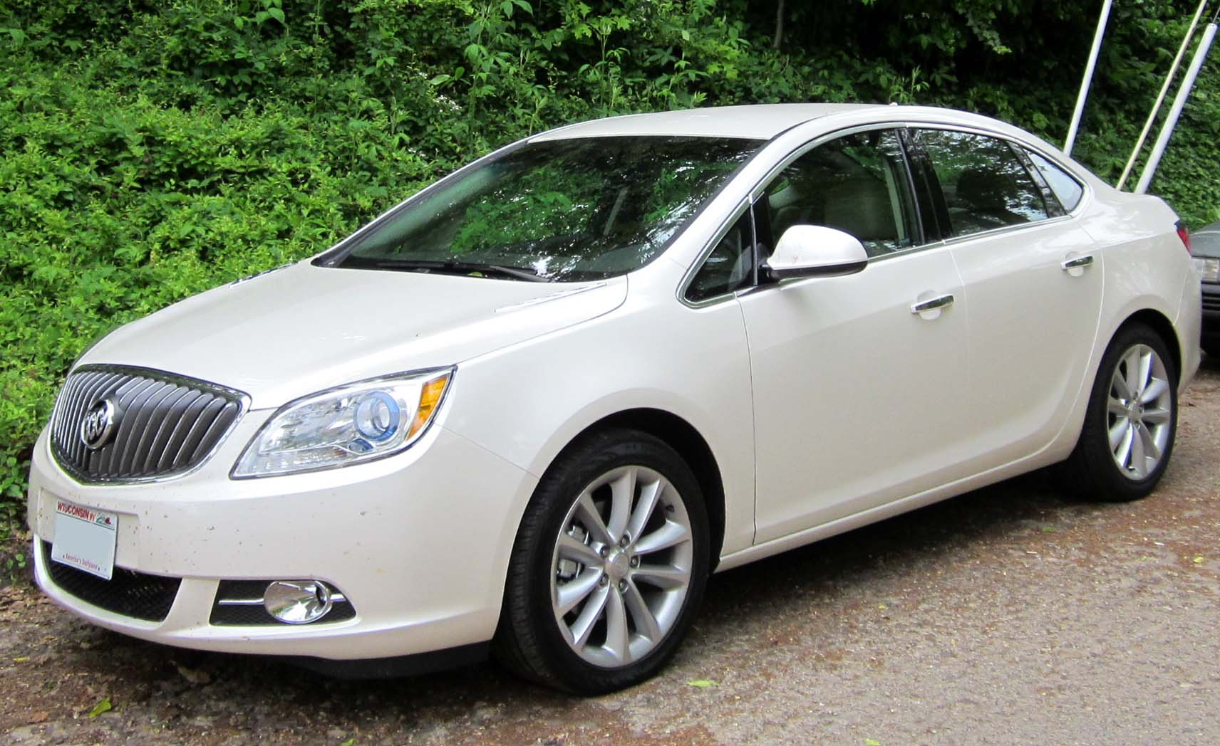 2012 Buick Verano photographed in Washington, D.C., USA.